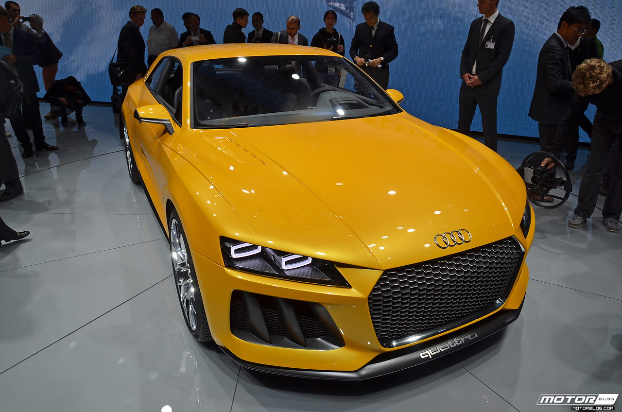 IAA Frankfurt 2013: Audi Sport quattro concept / Photo: Raphael Jahn ______________________ Please feel free to use this image for FREE under the Creative Commons (CC) licence. However, if you use the image, pls set a backlink to and give credit as following: "Image: ". For highres images or any other inquiries pls contact mailto: . Thanks.